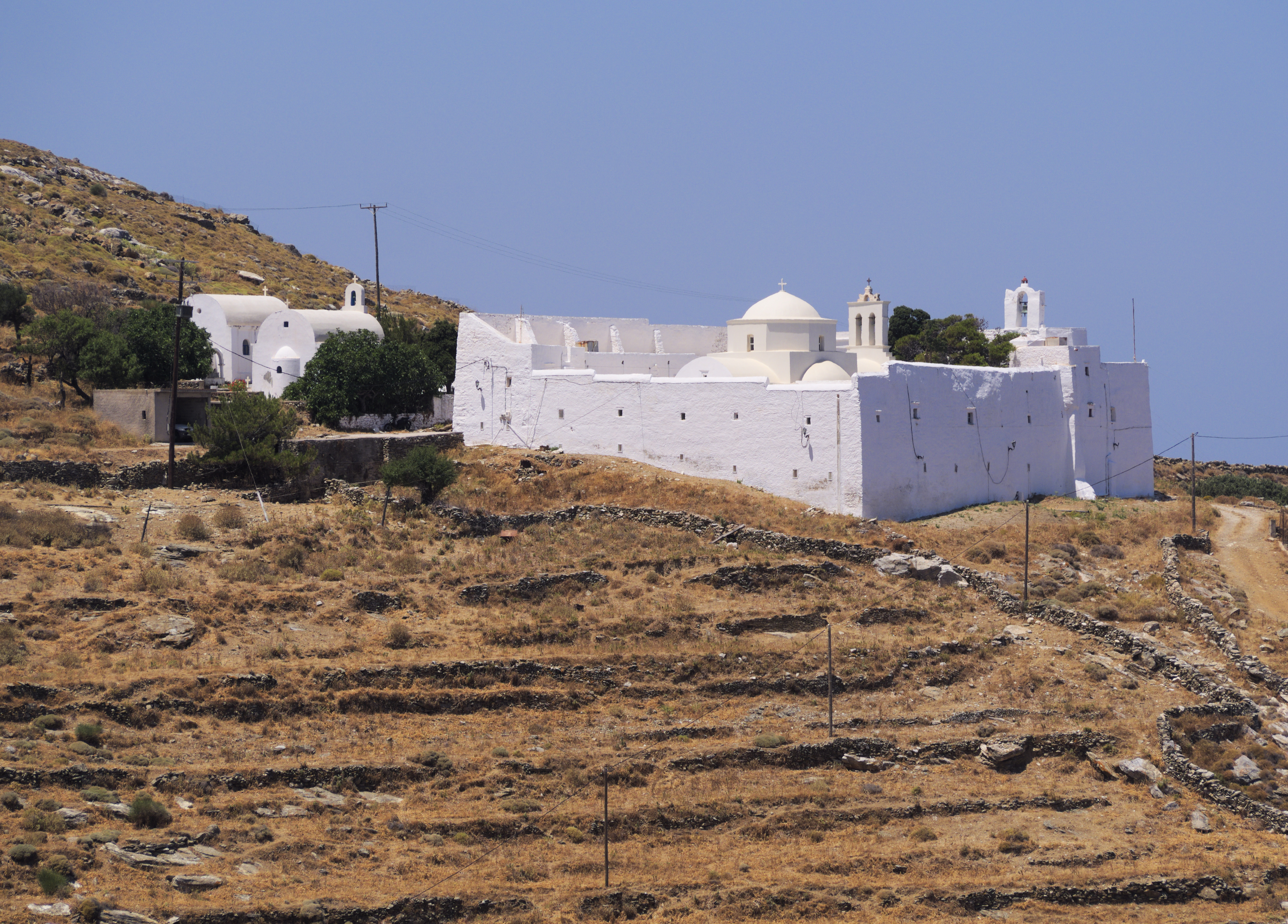 View of Taxiarchon monastery, from NE.